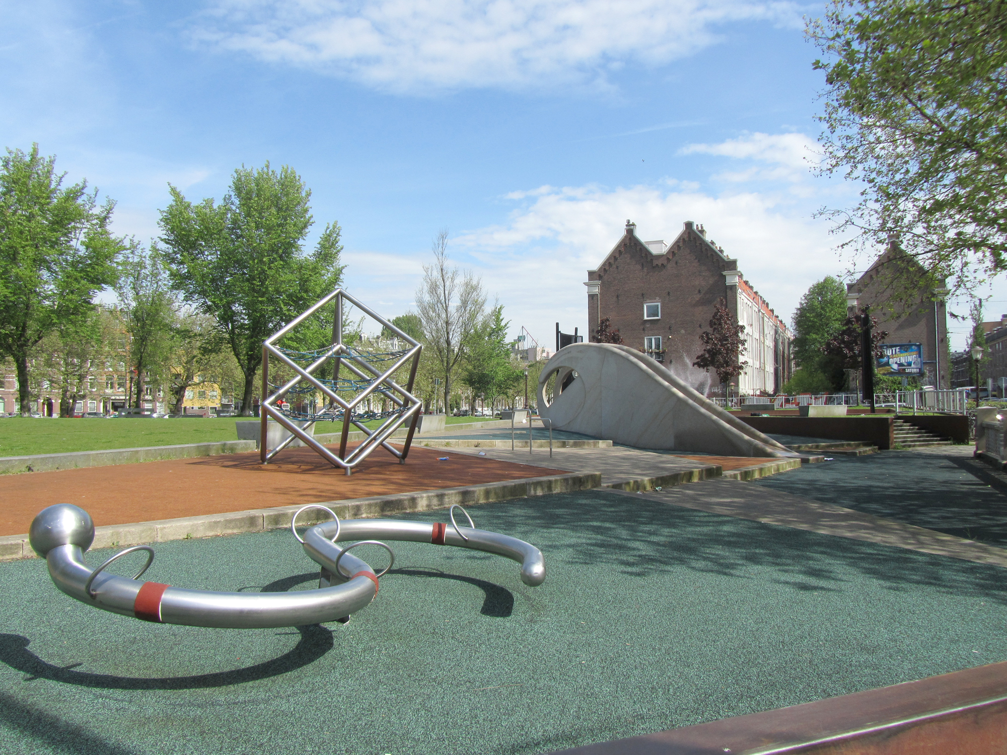 Eerste Marnixplantsoen, a small park in Amsterdam